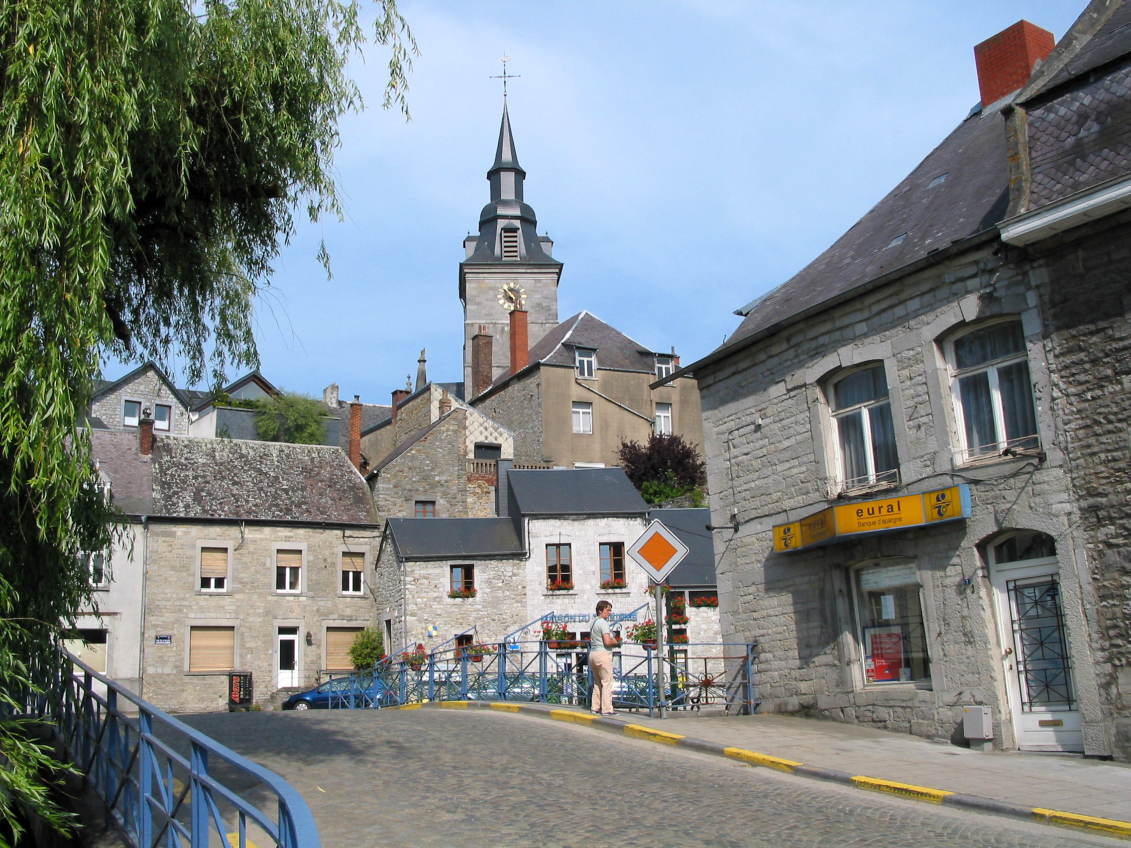 Couvin, rue Grand Pont. Walon: Couvin, rouwe do Grand Pont.